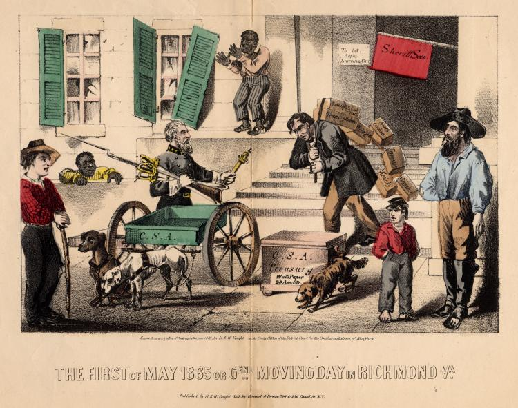 "The First of May 1865, or Genl Moving Day in Richmond Va," lithograph, created by Kimmel & Forster, New York City, 1865. Courtesy of the Ulrich B. Phillips Collection, Yale University Manuscripts & Archives Digital Images Database. Cartoon satirizing Confederate government abandonment of the capital at Richmond. Confederate leaders are caricatured as being evicted from a run-down house. General Robert E. Lee loading swords and guns in a cart hitched to scrawny dogs. A man (Jefferson Davis?) hauls boxes labeled with names of Confederate states; the load is falling apart off his back. Onlookers include a barefoot child, a man with one arm, and an African-American thumbing his nose as a taunt.